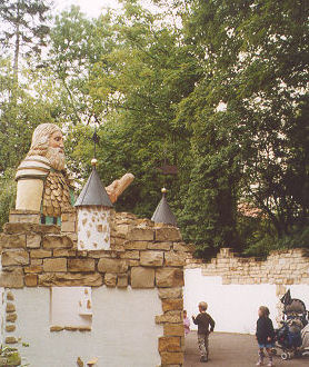 Goliath in the castle park of the German city of Ludwigsburg